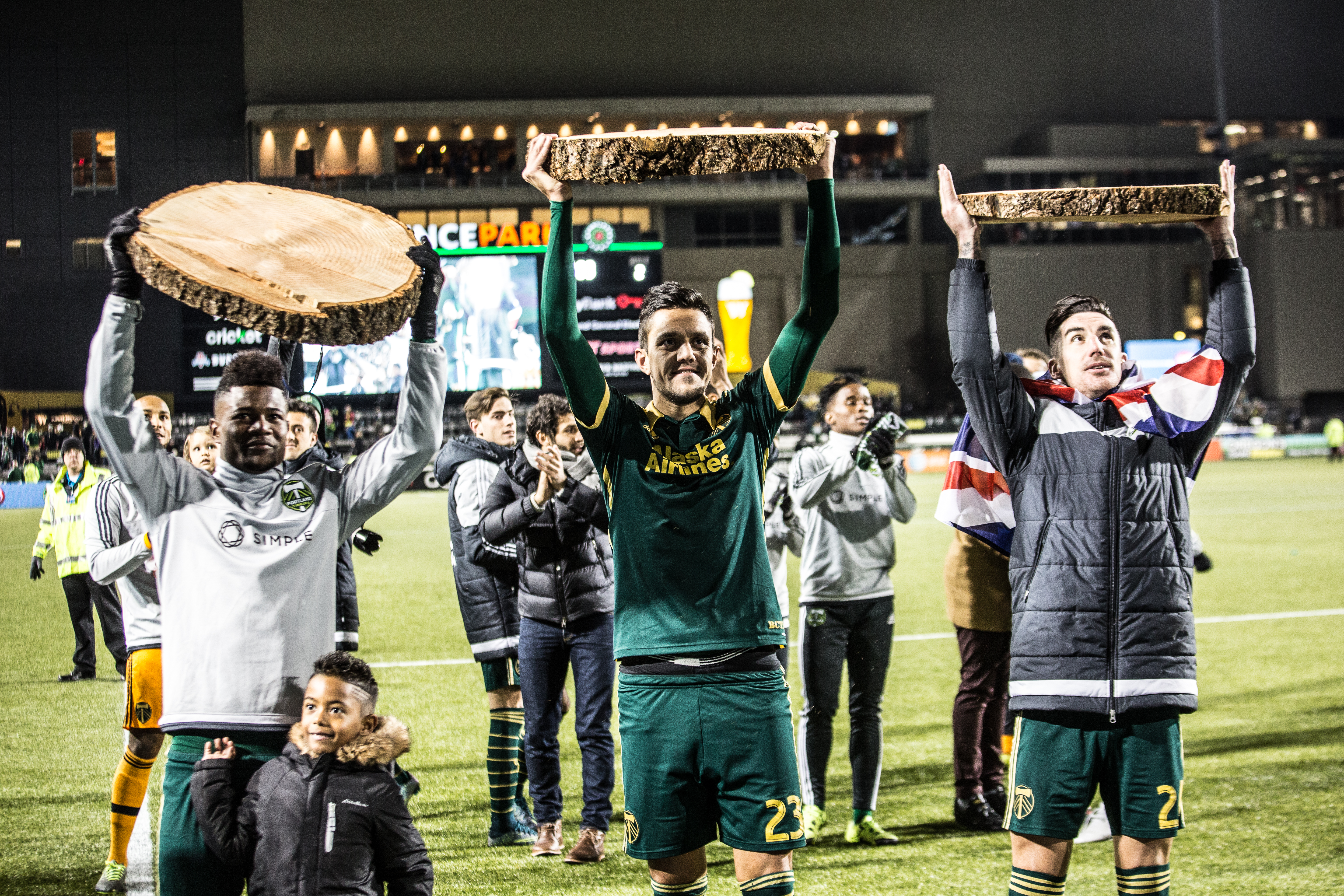 Timbers players Dairon Asprilla, Norberto Paparatto and Liam Ridgewell hold up log slices after Portland outscored FC Dallas 3-1 on November 2, 2015 at Providence Park.